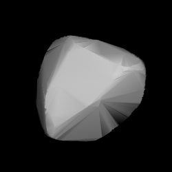 3D convex shape model of 3822 Segovia, computed using light curve inversion techniques. J. Hanuš, J. Ďurech, M. Brož, B. D. Warner (June 2011). "A study of asteroid pole-latitude distribution based on an extended set of shape models derived by the lightcurve inversion method". Astronomy and Astrophysics 530: A134. ISSN 0004-6361. arXiv